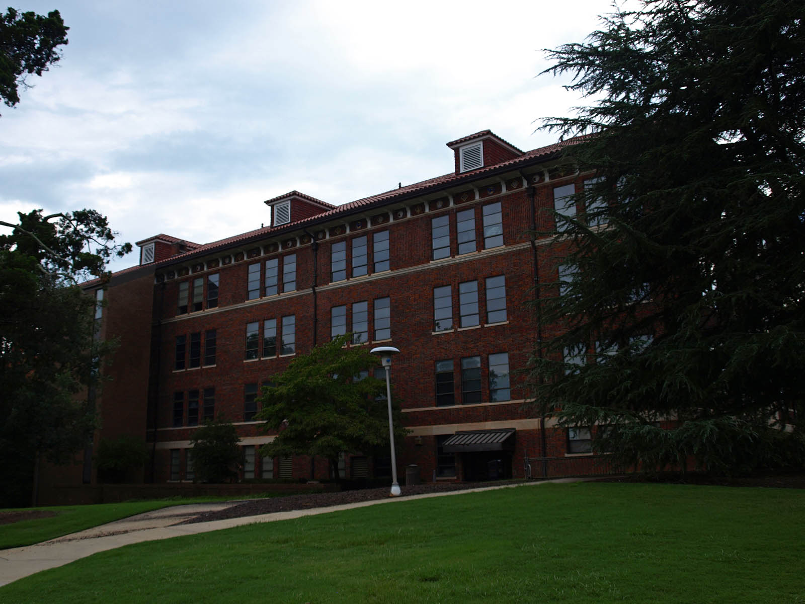 Sirrine Hall (Business) at Clemson University in Clemson, South Carolina.